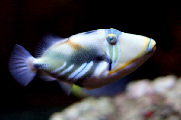 Humahumanukanukaapua or lagoon triggerfish (Rhinecanthus aculeatus), at the North Carolina Aquarium at Fort Fischer